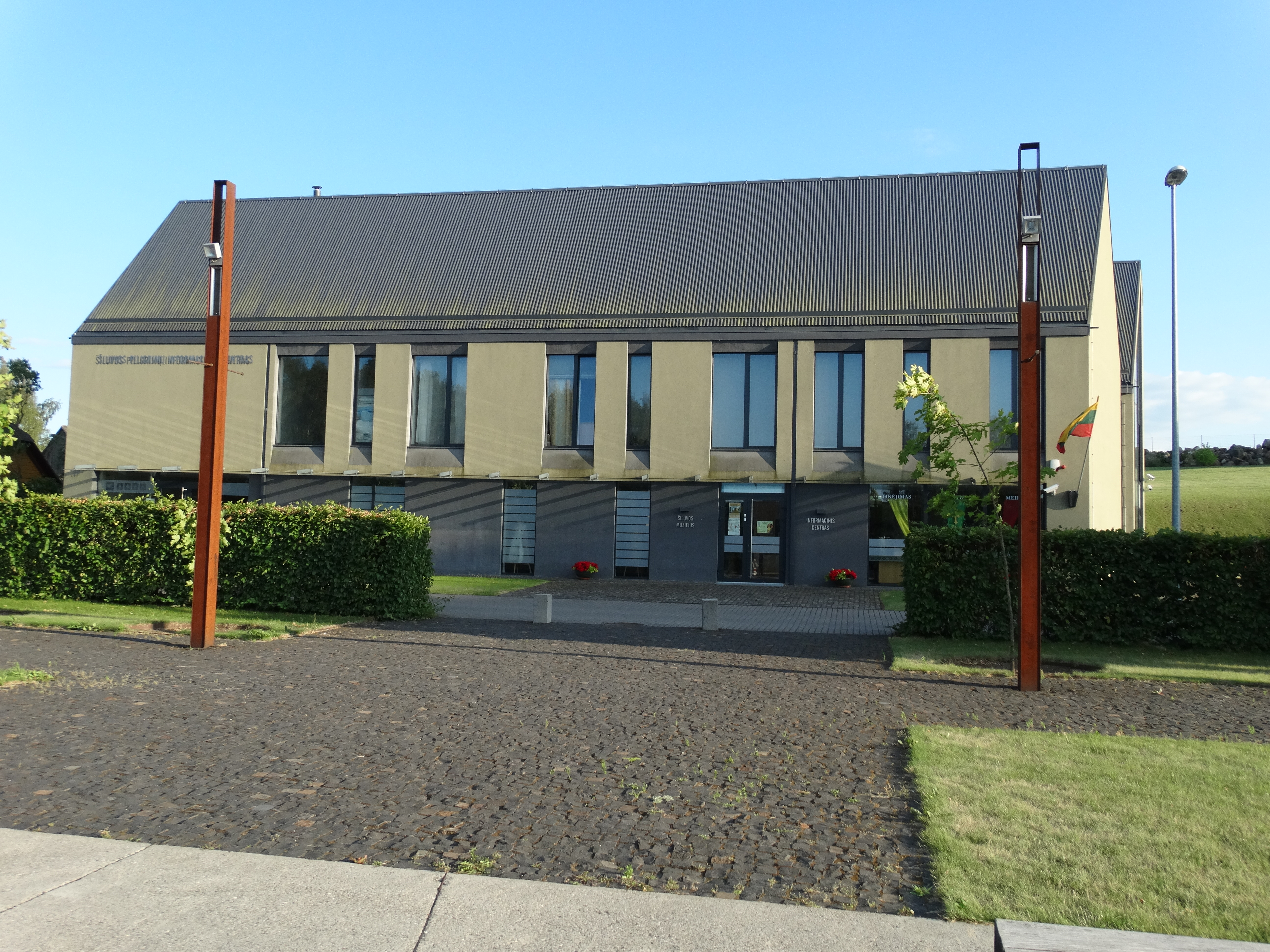 Pilgrimage centre, Šiluva, Raseiniai district, Lithuania